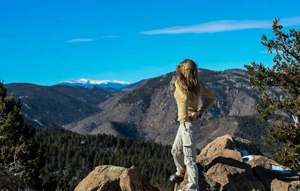 Looking west from Carpenter Peak at Roxborough State Park